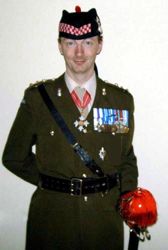 User:MilitaryPro, better known as User:Alan Mcilwraith.